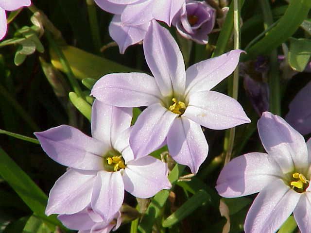 Species: Ipheion uniflorum Family: Alliaceae Image No. 2